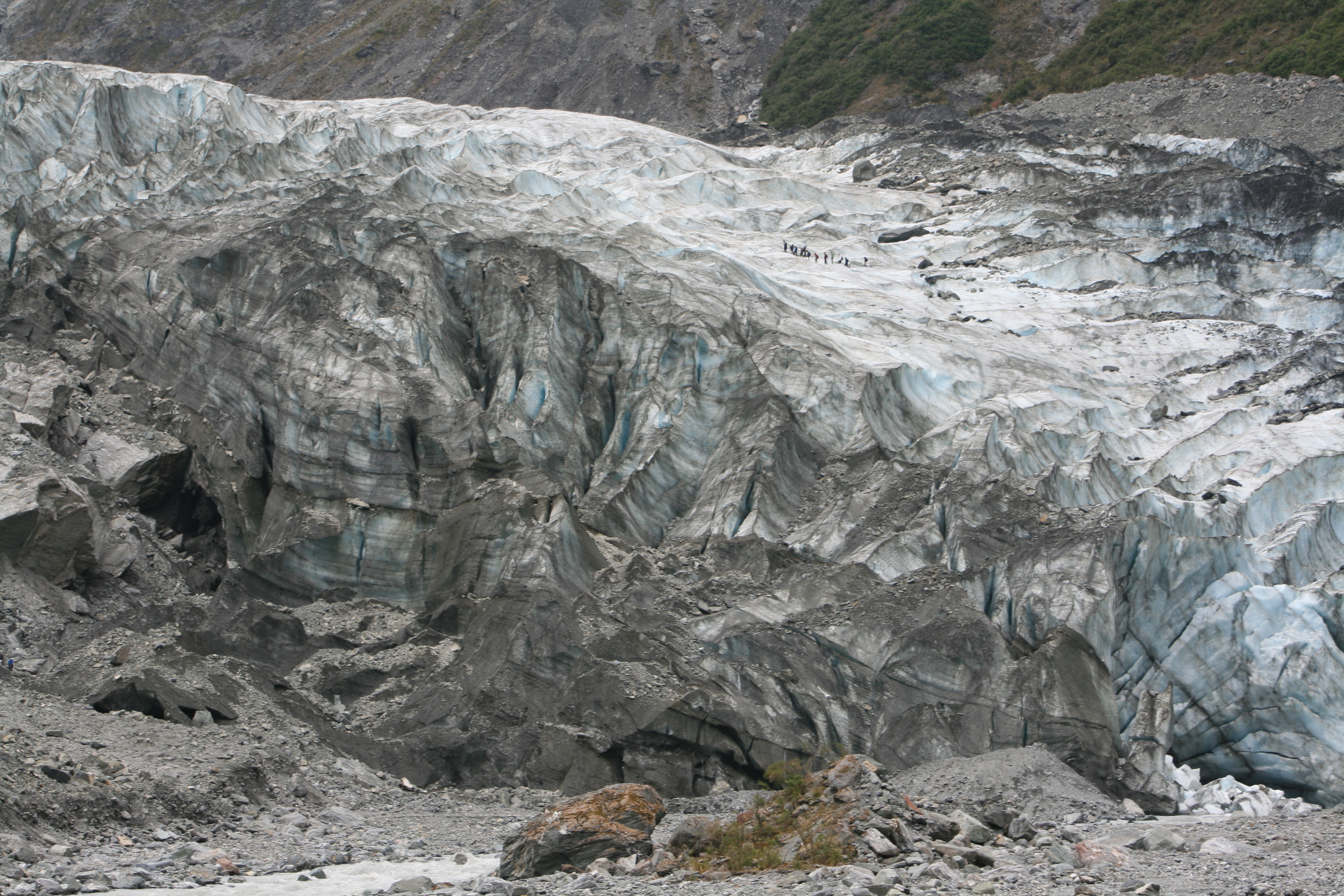 Franz Josef Glacier, New Zealand